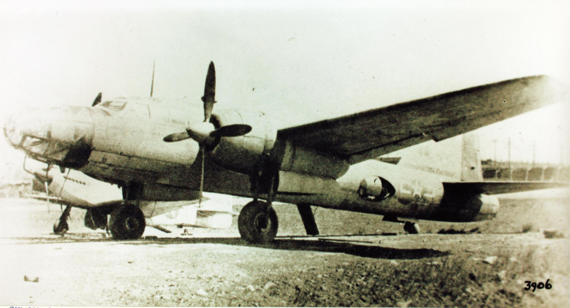 Mitsubishi Ki-67 "Hiryu" bomber captured by the United States at the end of World War II.